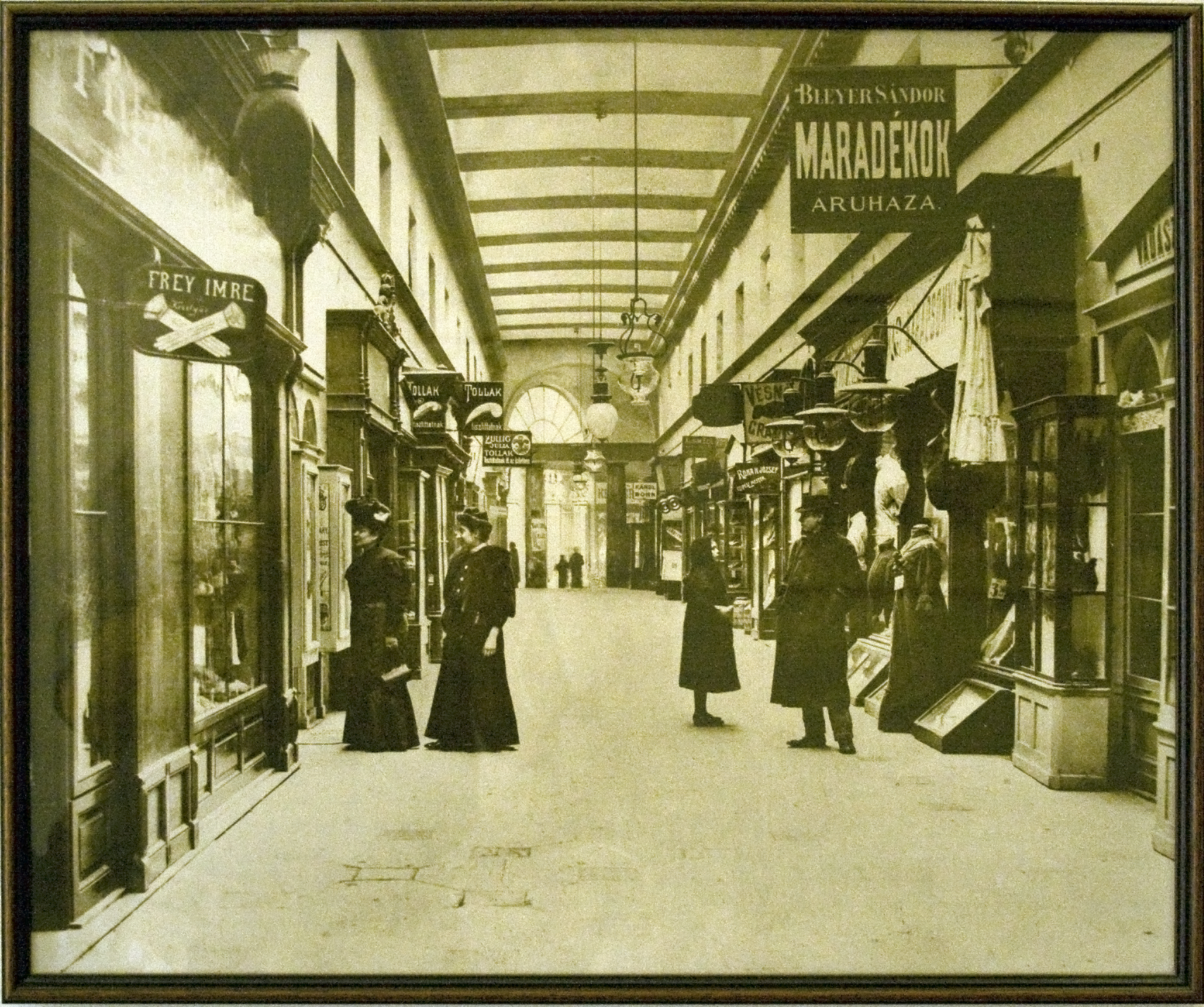 The passage of the old "Paris house" mall before its demolition at the current site of "Párizsi udvar" in 10 Ferenciek tere, Budapest